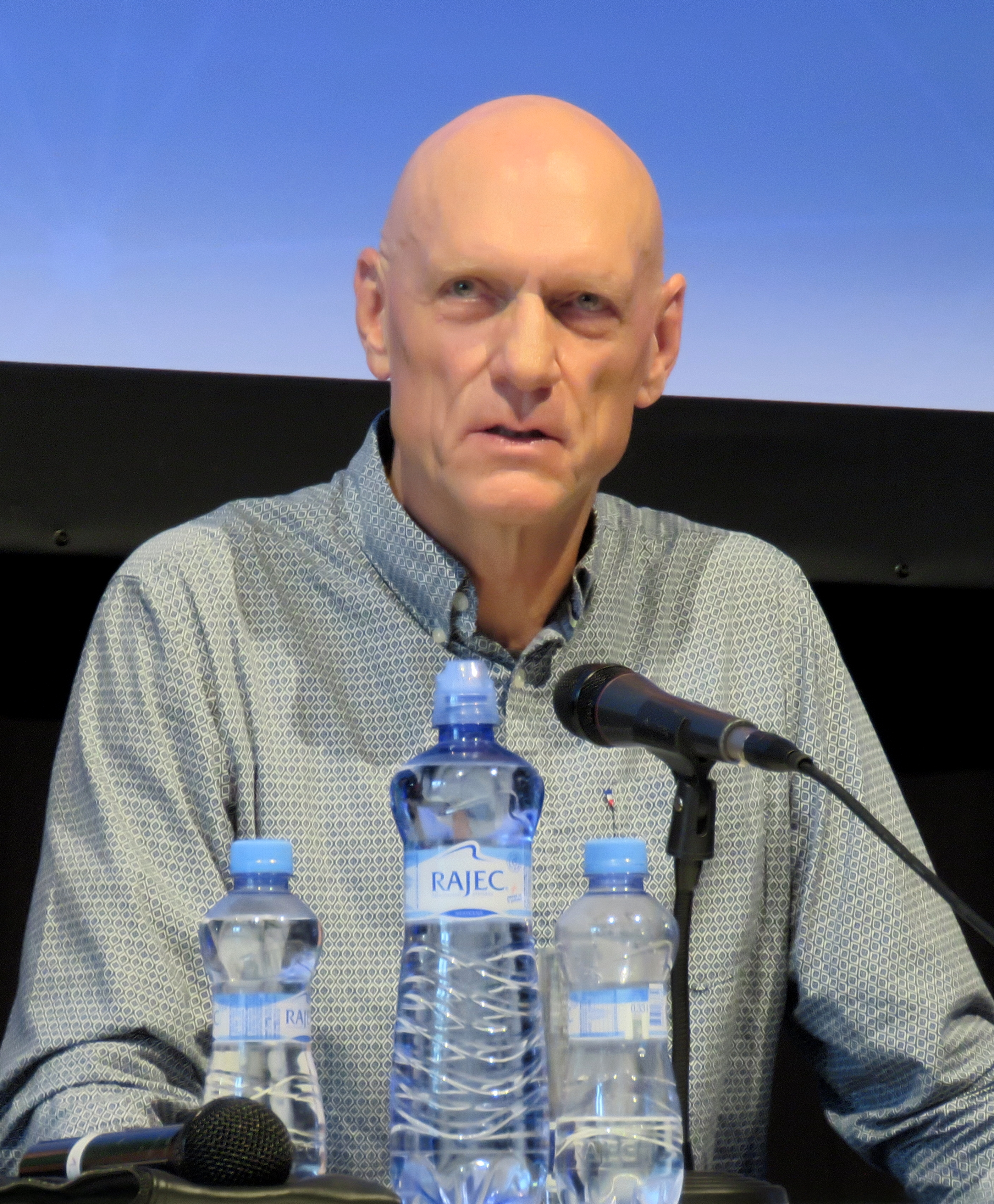 Peter Garrett in a debate, Ostrava, Czechia.